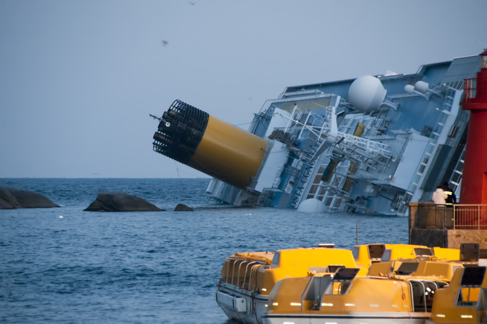 Collision of Costa Concordia Information about Costa Concordia may be found at IMO 9320544.A ship can change name and flag state through time, but the IMO number remains the same through the hull's entire lifetime. As a result, it can be useful to identify a ship by using the IMO number.